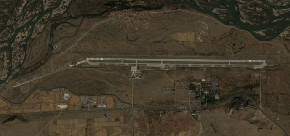 Sentinel-2 capture of Shigatse Peace Airport